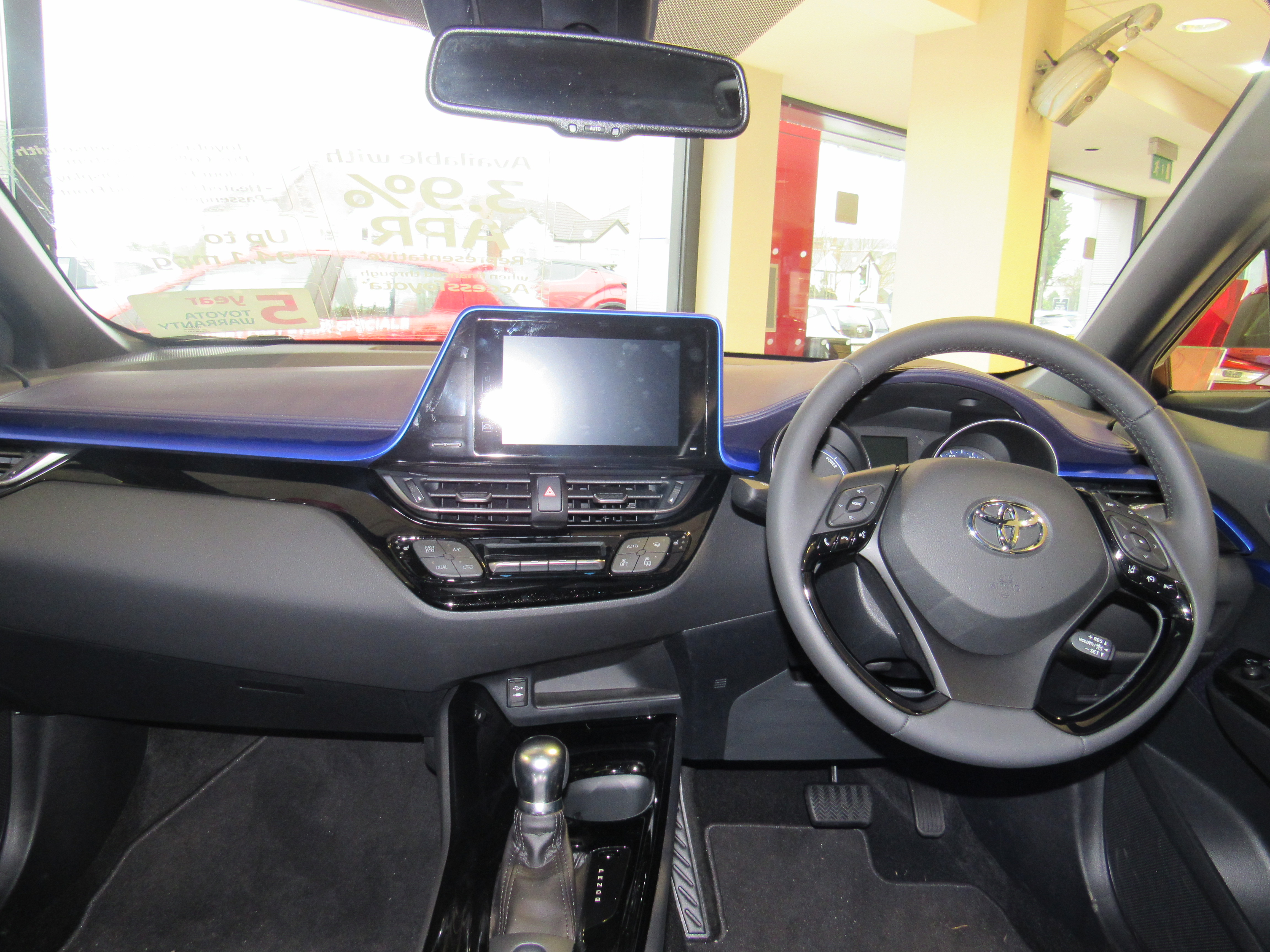 2017 Toyota C-HR Interior Taken in Vantage Toyota, Shirley, Solihull